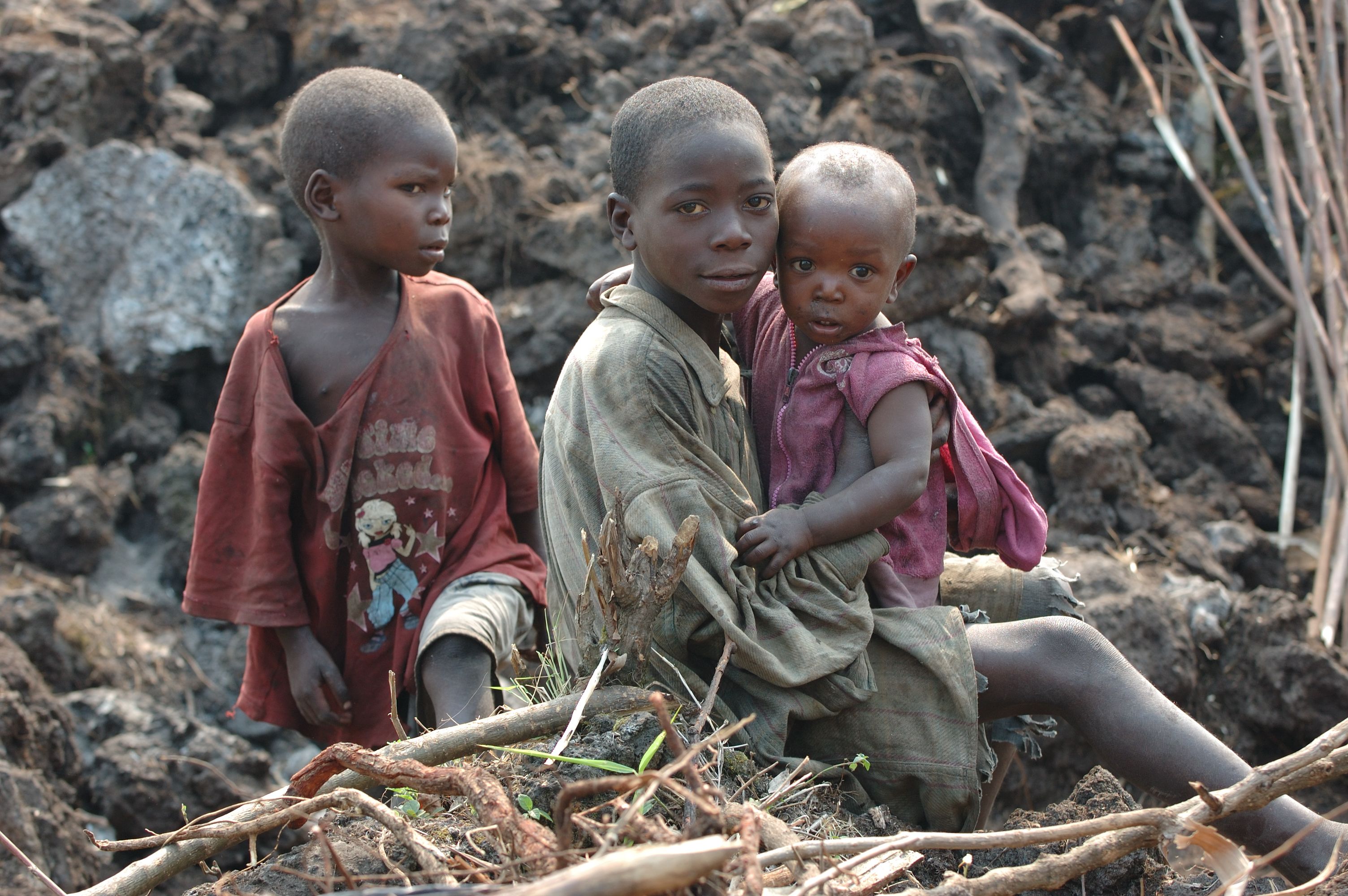 "Life in Muganga camp Mugunga is about 10km from Goma. The first people started setting up a makeshift camp in May after fighting in Ufumumba. By now the camp has grown into three sites and a fourth official camp will be opened in the coming days. The fighting in the last days has led to a large influx of new displaced. Registrations in the coming days will tell us how many there are but it should be well over fifteen thousand people and maybe into the twenties. For a variety of reasons UNICEF and other humanitarian actors were slow to respond in Muganga. Since then we have assisted with distributions of non food items, construction of latrines, showers and the rehabilitation of the water distribution network. However new arrivals in the camp remain unassisted and our new projects for education, child friendly spaces, health and nutrition have yet to start. To stay in touch with the people we work with I will be visiting the camp regularly to document their lives and develop a better understanding of their situation. On Saturday I went up early in the morning, met up with the committee for the displaced and asked if it would be alright to come to the camp from time to time. Fortunately they said yes and I spent the next couple of hours drifting through the camp as people got on with life, building huts, cooking, having breakfast."